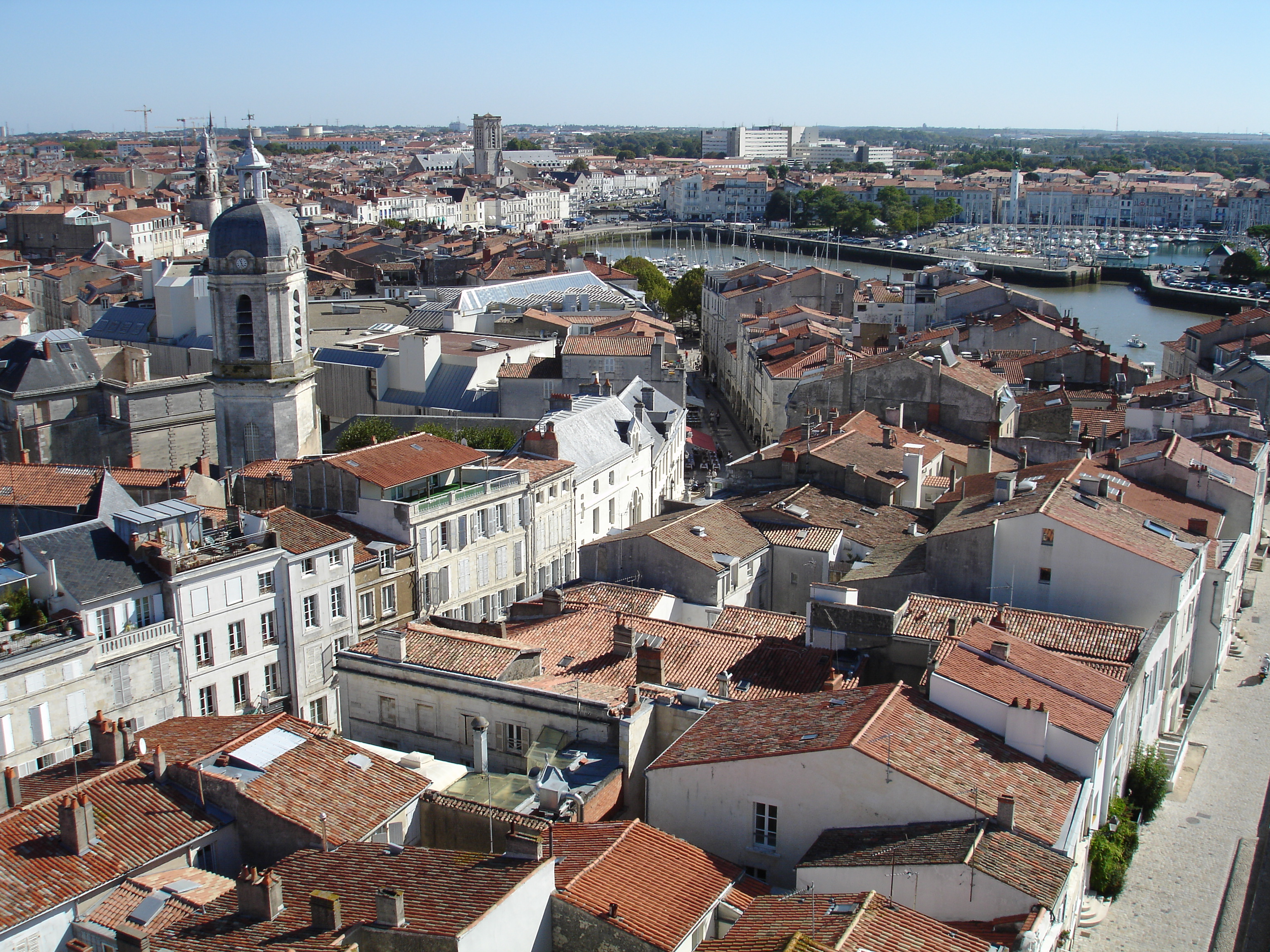 Overlooking the Old Town and Harbour at La Rochelle, France